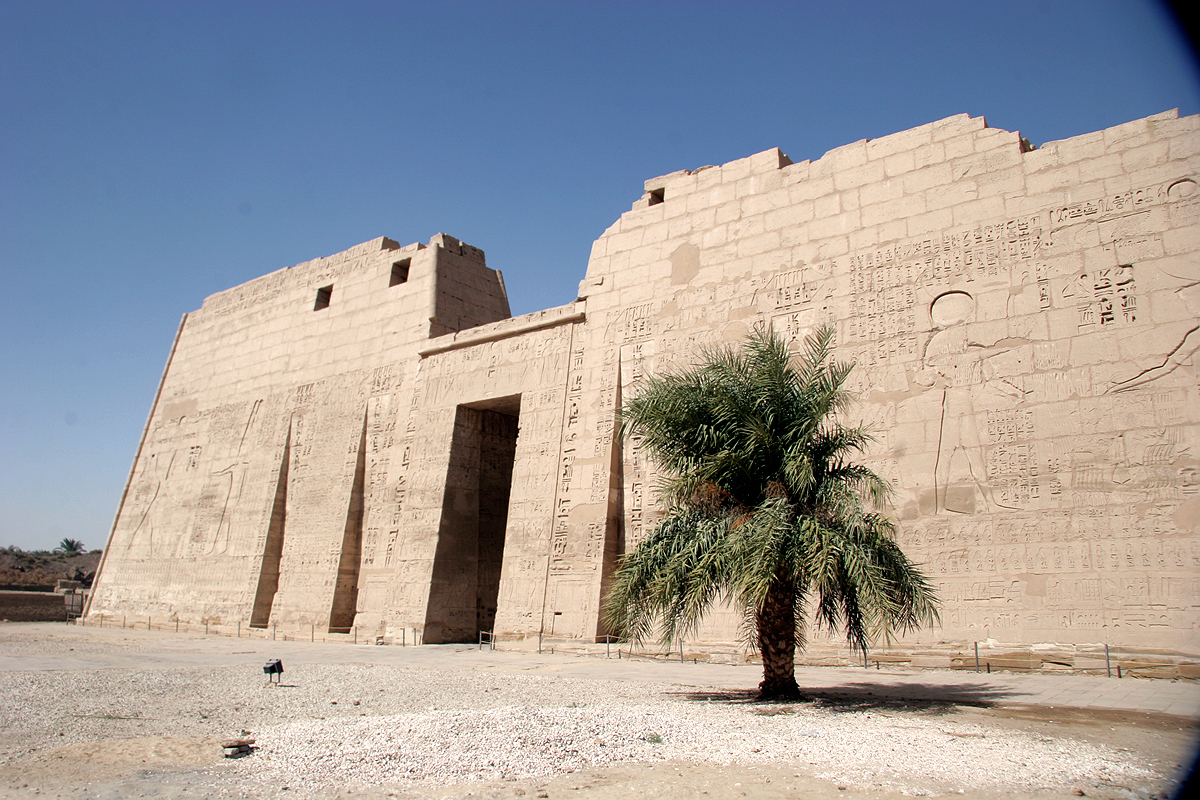 Mortuary temple of Ramesses III